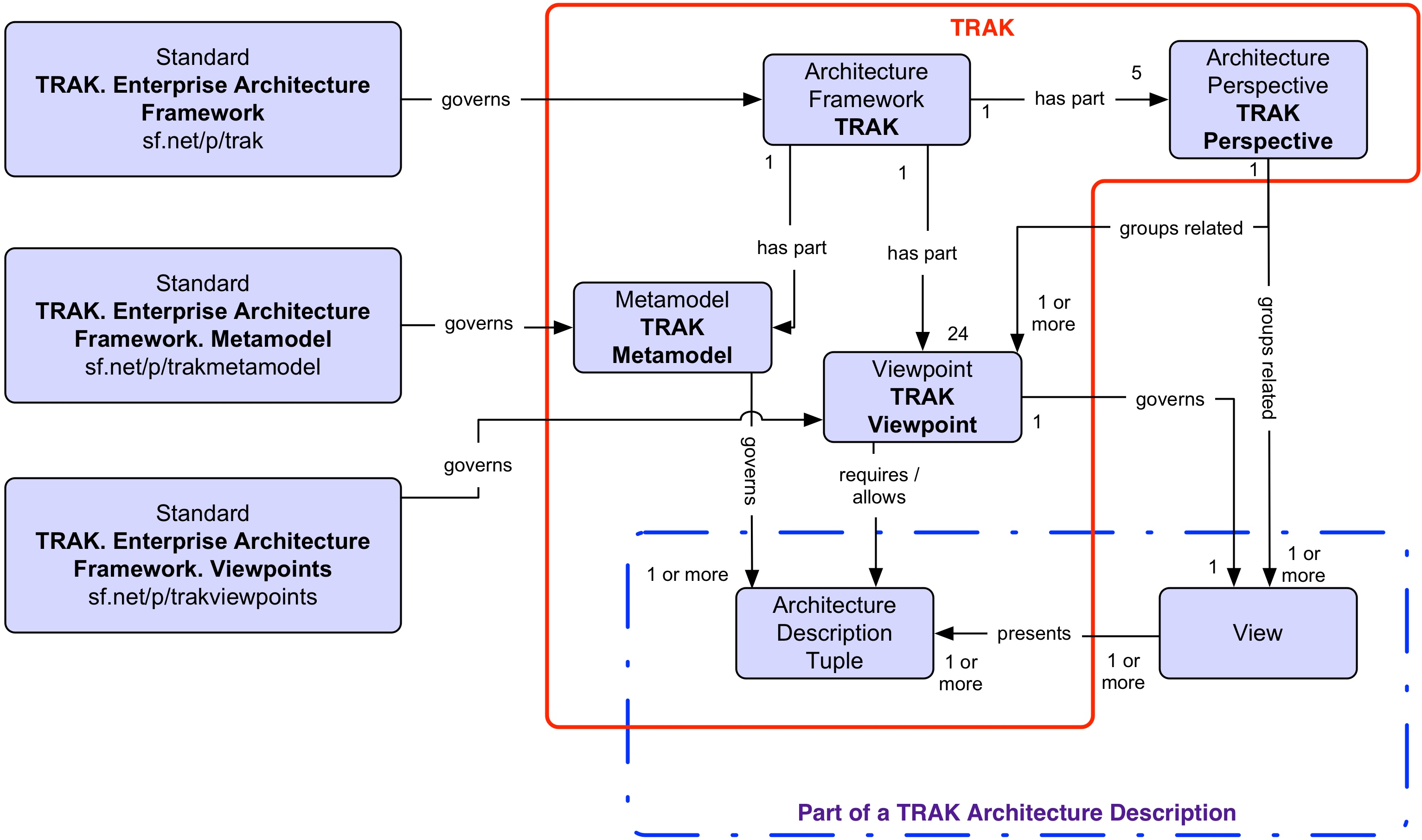 Structure of the TRAK enterprise architecture framework. Shows TRAK being formed from 1 metamodel, 22 architecture viewpoints and 5 architecture perspectives. Each architecture viewpoint (ISO/IEC 42010 terminology) specifies 1 TRAK view (type). Shows the 3 documents that specify the logical definition of TRAK and their Sourceforge project URLs i.e. TRAK Enterprise Architecture Framework ( TRAK Enterprise Architecture Framework Viewpoints ( and TRAK Enterprise Architecture Framework Metamodel(